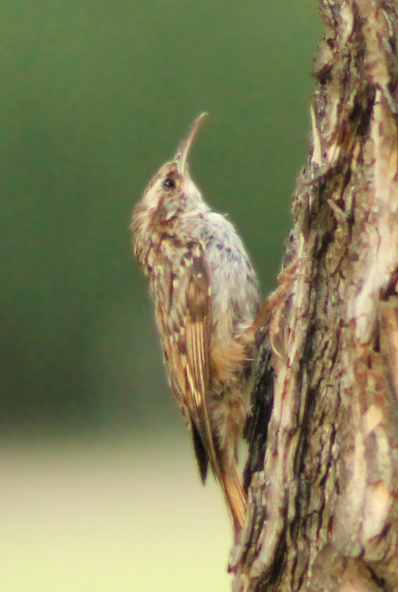 A Short-toed Treecreeper (Certhia brachydactyla) in Madrid (Spain).